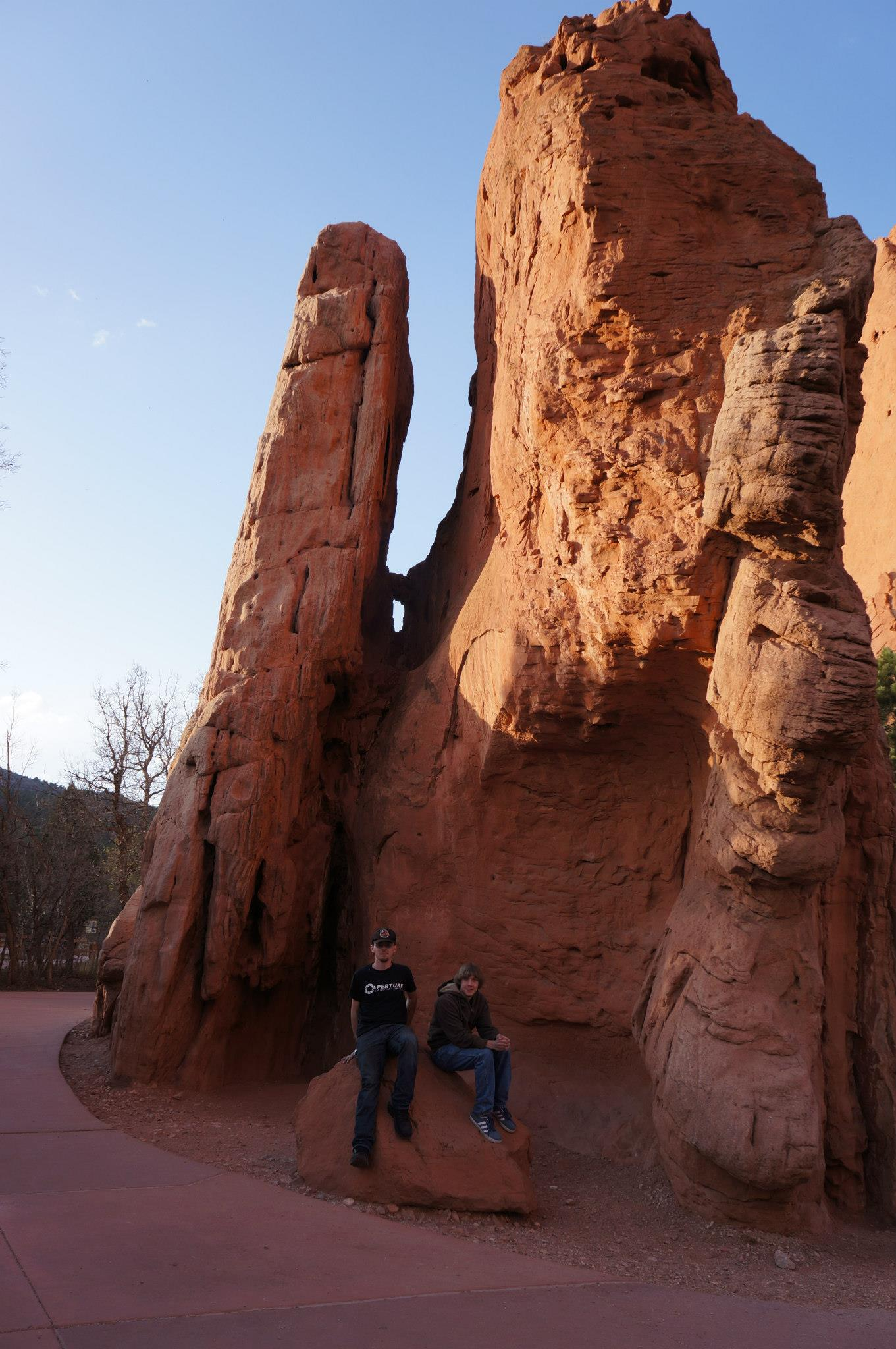 Gateway Rock, a common tourist attraction in Garden of the Gods